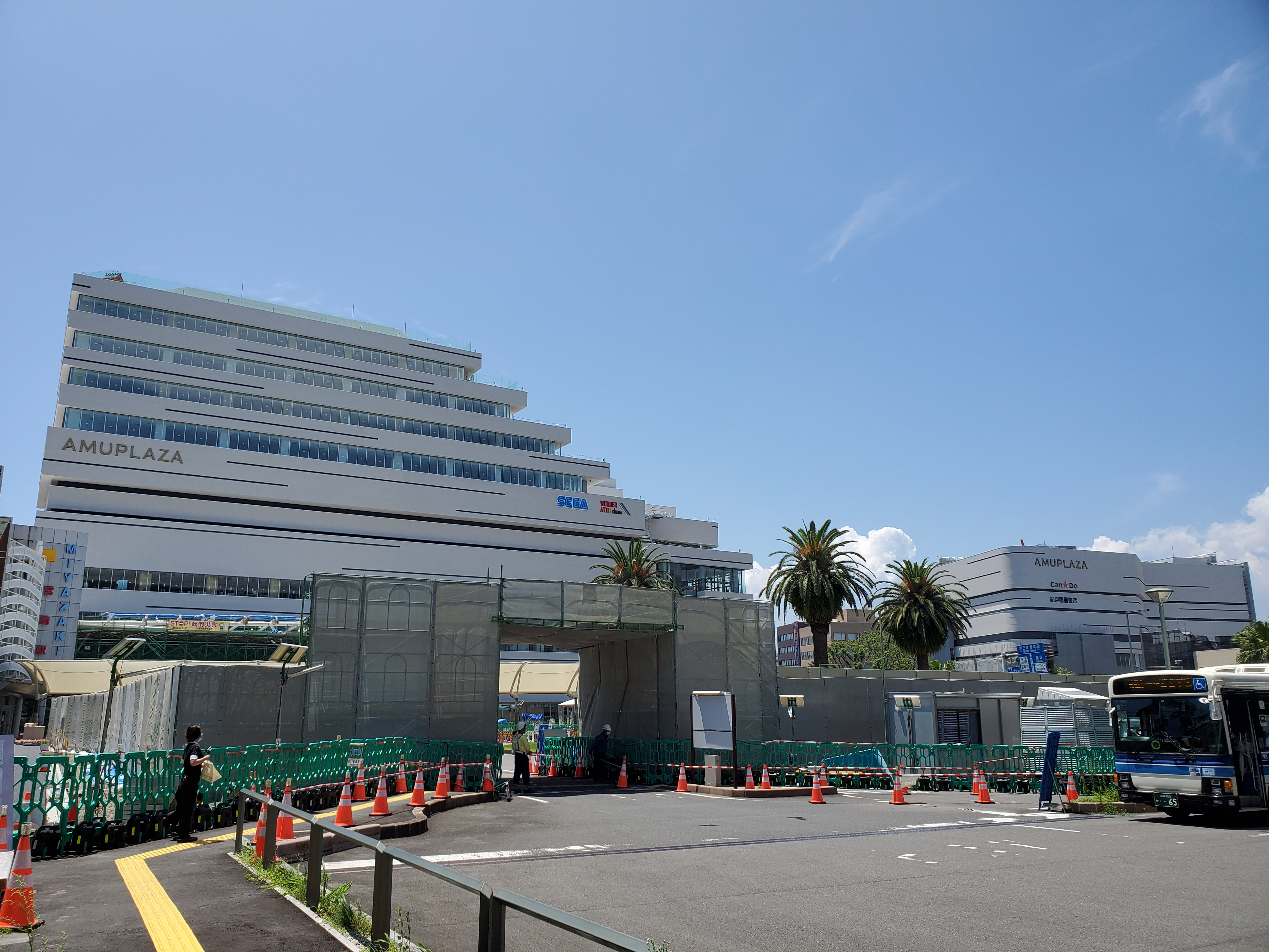 AMU Plaza Miyazaki (JR Miyazaki Station Building) on July 31, 2020.